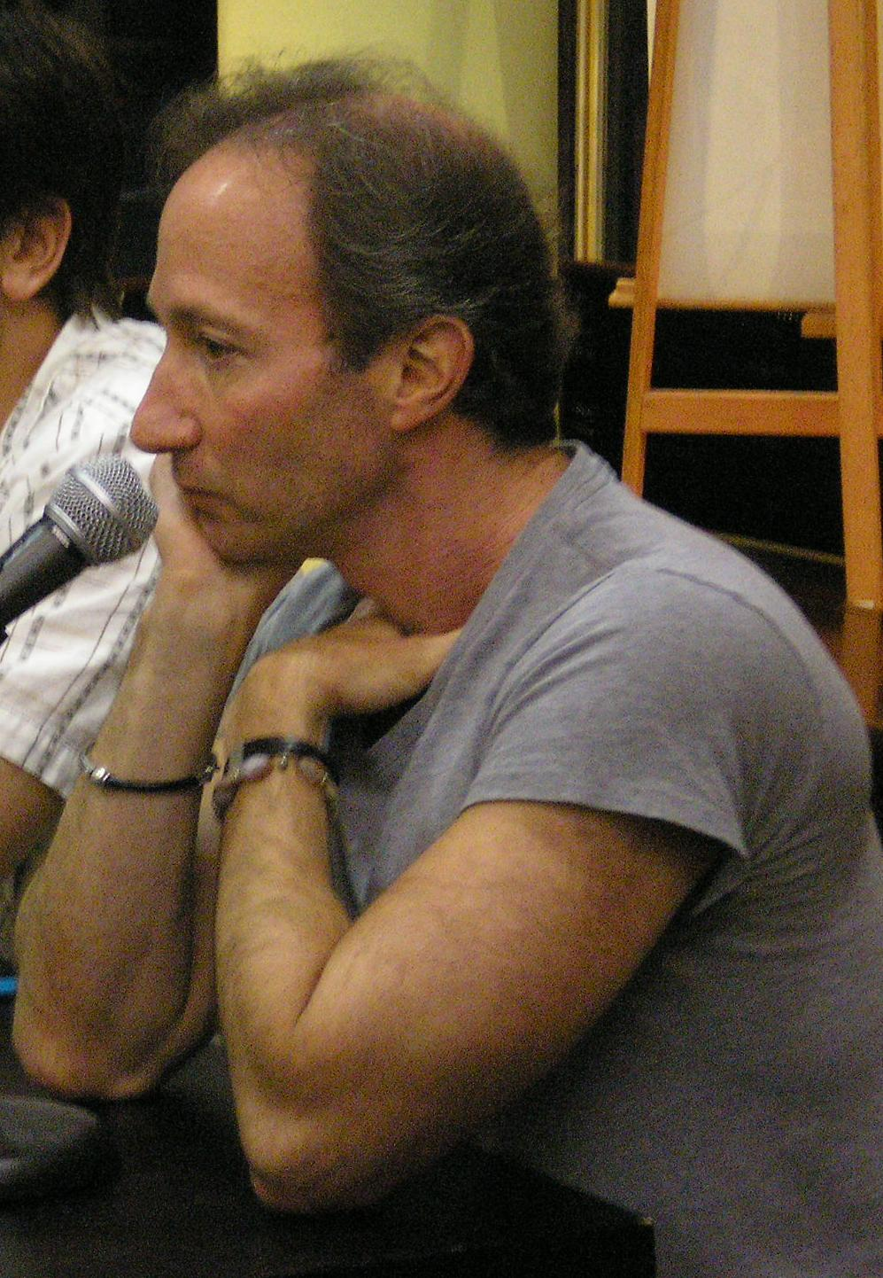 Mark Leyner by David Shankbone, New York City